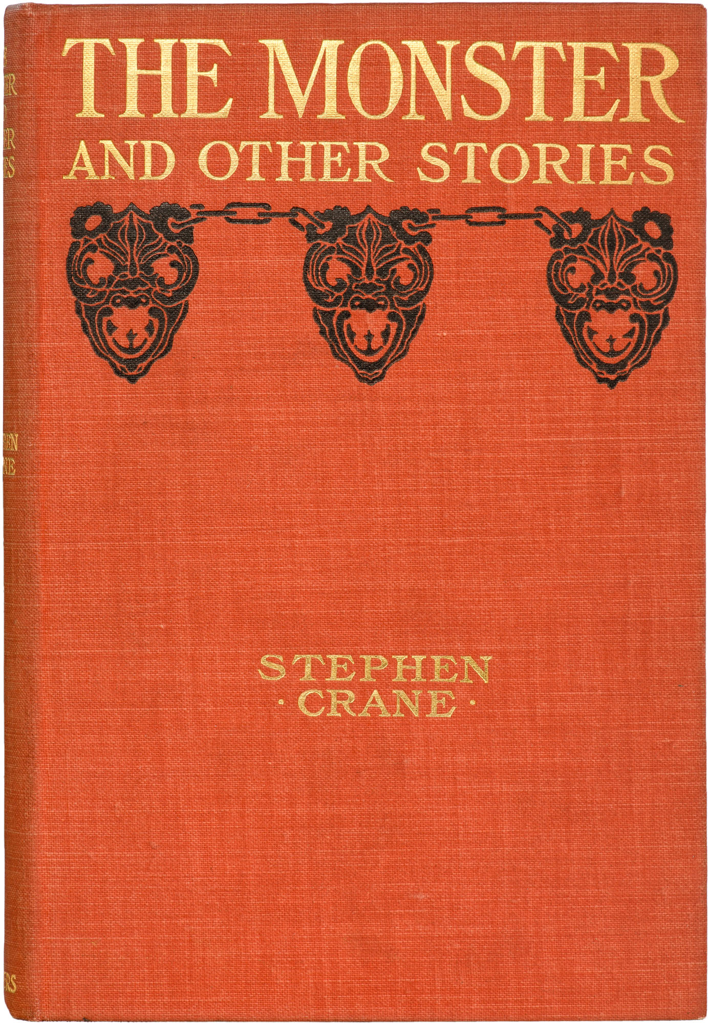 Cover of The Monster and Other Stories by Stephen Crane.